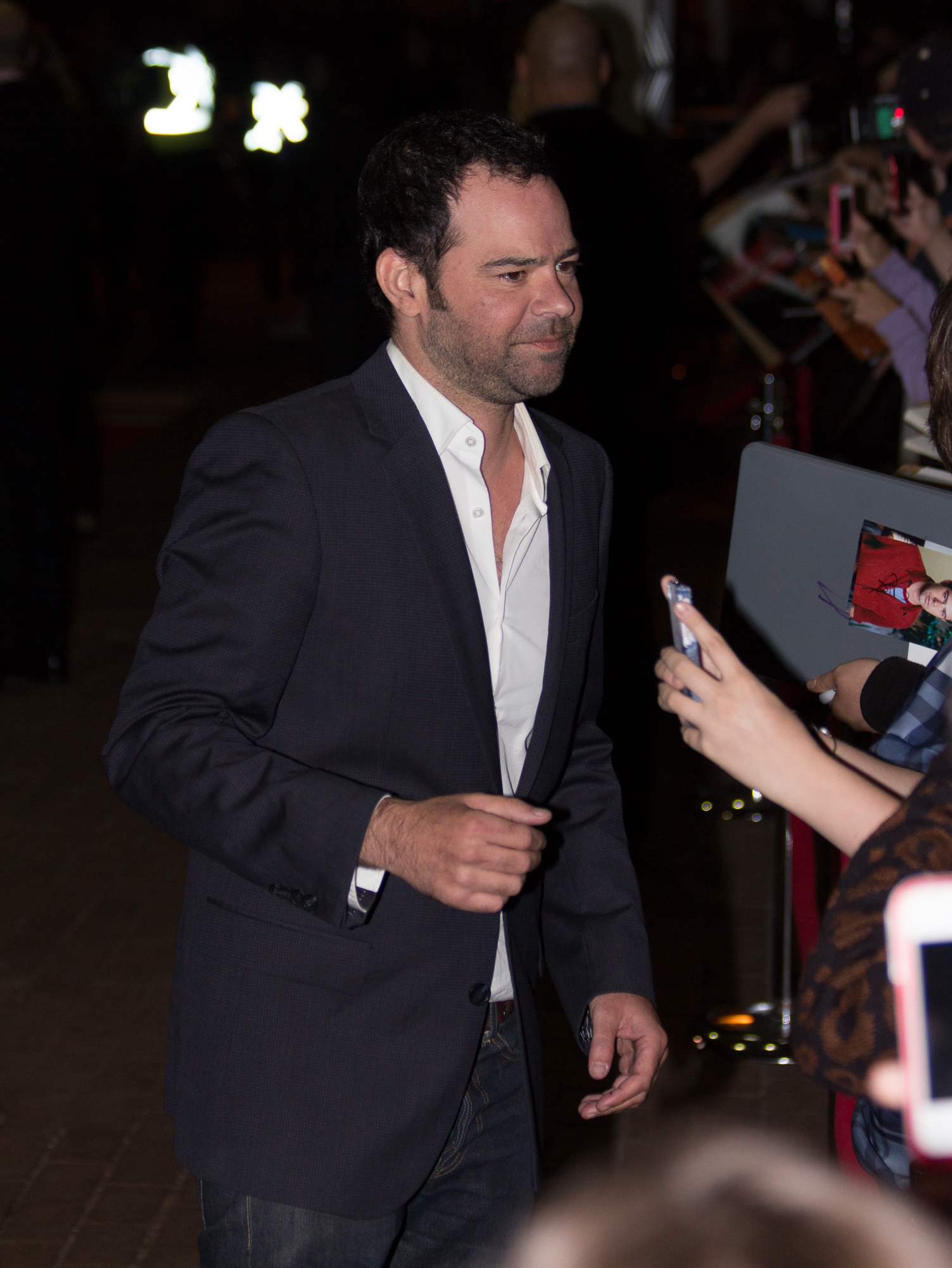 TIFF 2013, Day 4